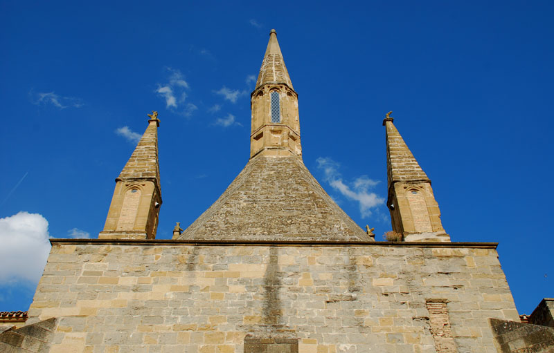 gothic kitchen pamplona cathedral